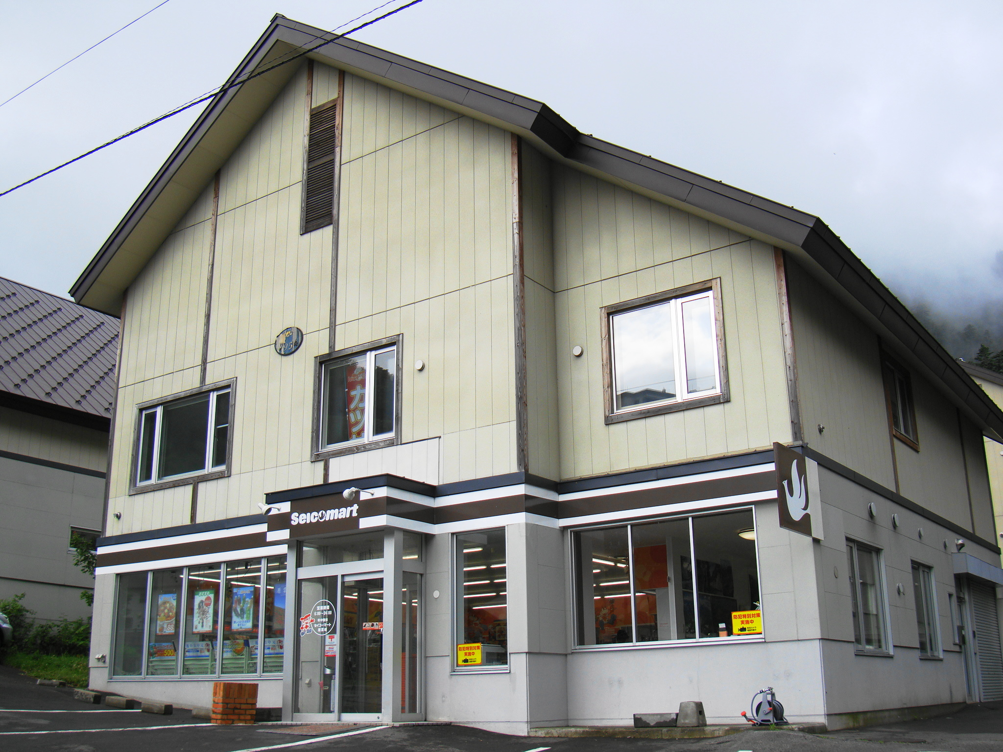 Seicomart Sōunkyō